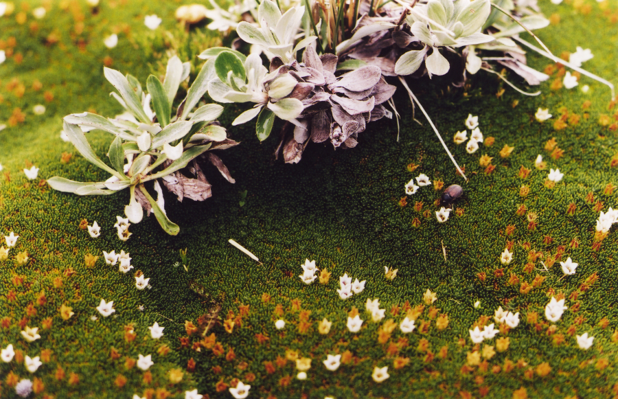 Donatia novae-zelandiae cushion with Celmisia sp. and a wee beetle. Tarn Col, Arthur's Pas NP, New Zealand